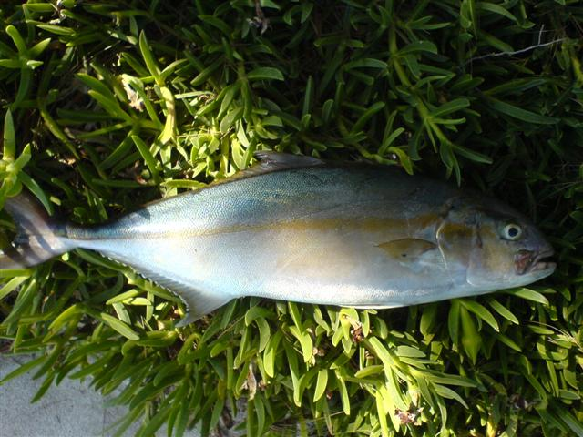 Amberjack caught in Coratian waters